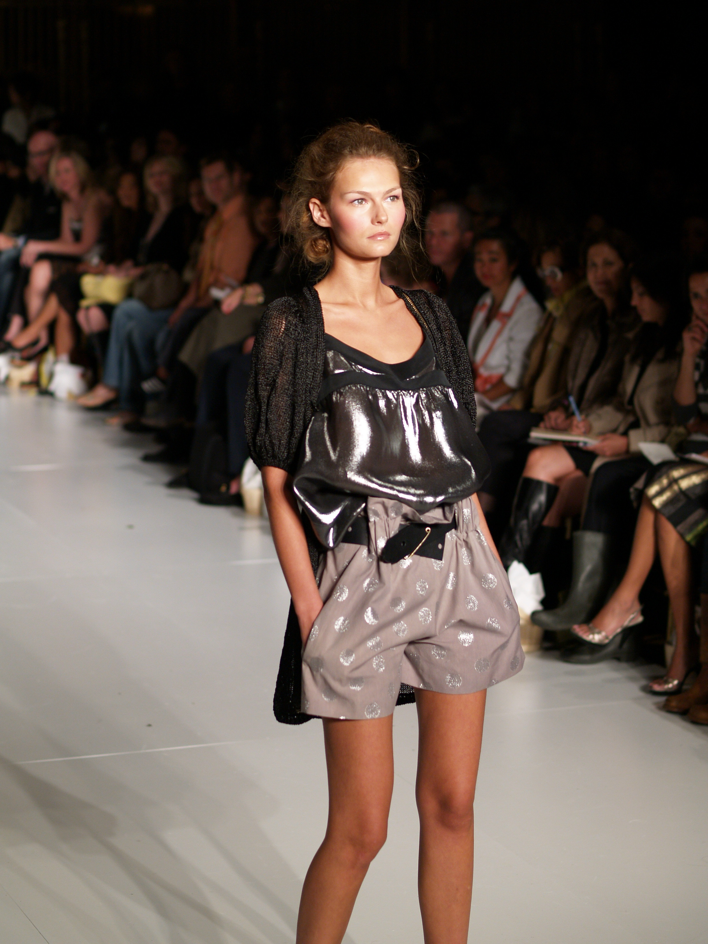 Tatiana Usova modeling in Cynthia Rowley spring 2006 show, New York Fashion Week.